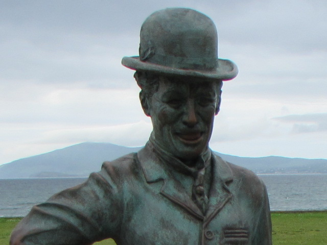 The bronze statue of Charlie Chaplin in Waterville, County Kerry, Ireland. More details.